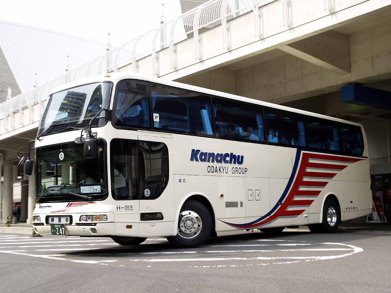 Model: Mitsubishi Fuso Aero Queen III (KC-MS822P) License plate: KNN22 KA-247（湘南22か・247） Place: Pacifico Yokohama: Minato-mirai, Nishi ward, Yokohama Japan